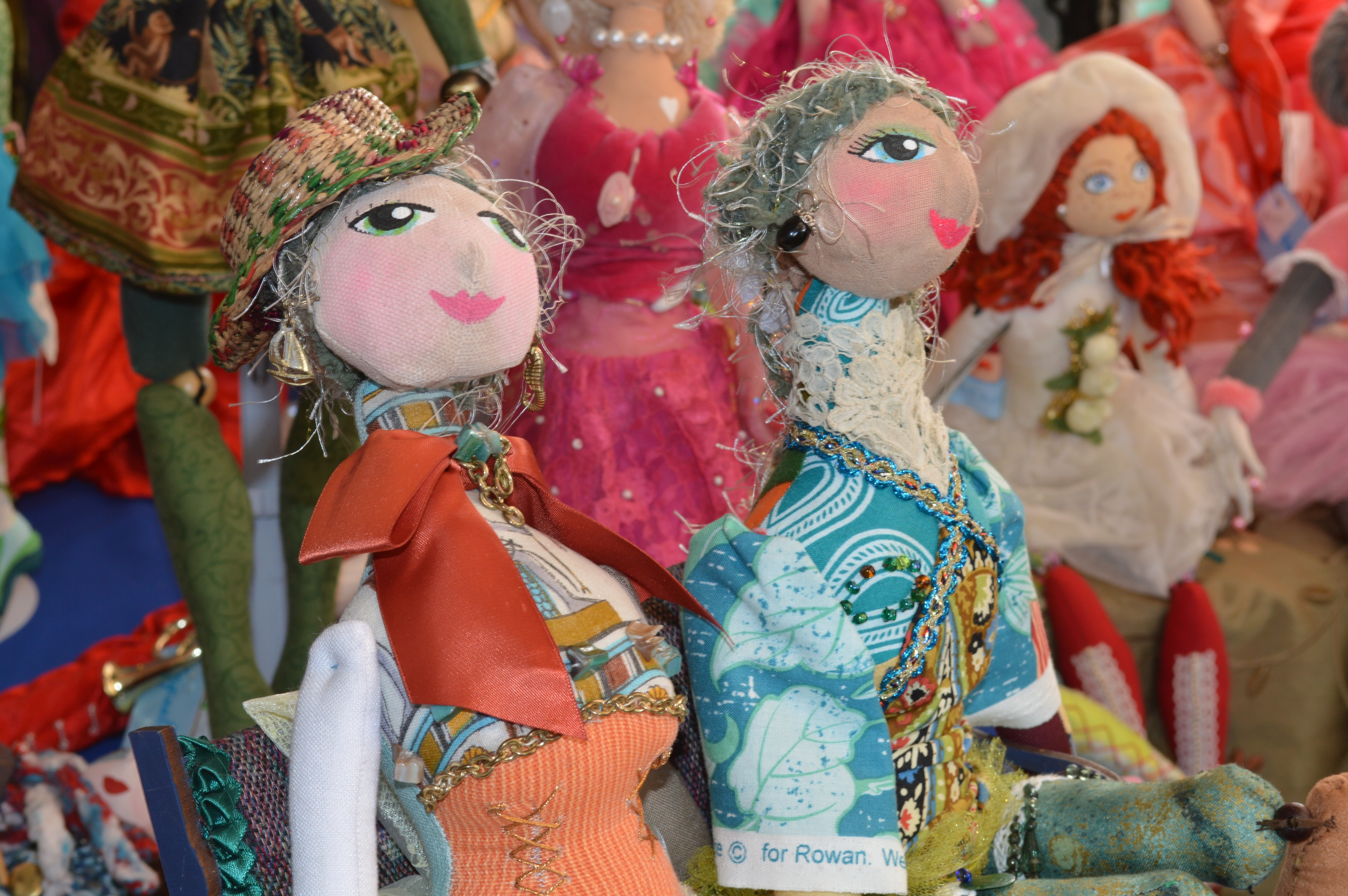 Original Friends Dolls at the 2015 Feria de los Maestros del Arte in Chapala, Jalisco